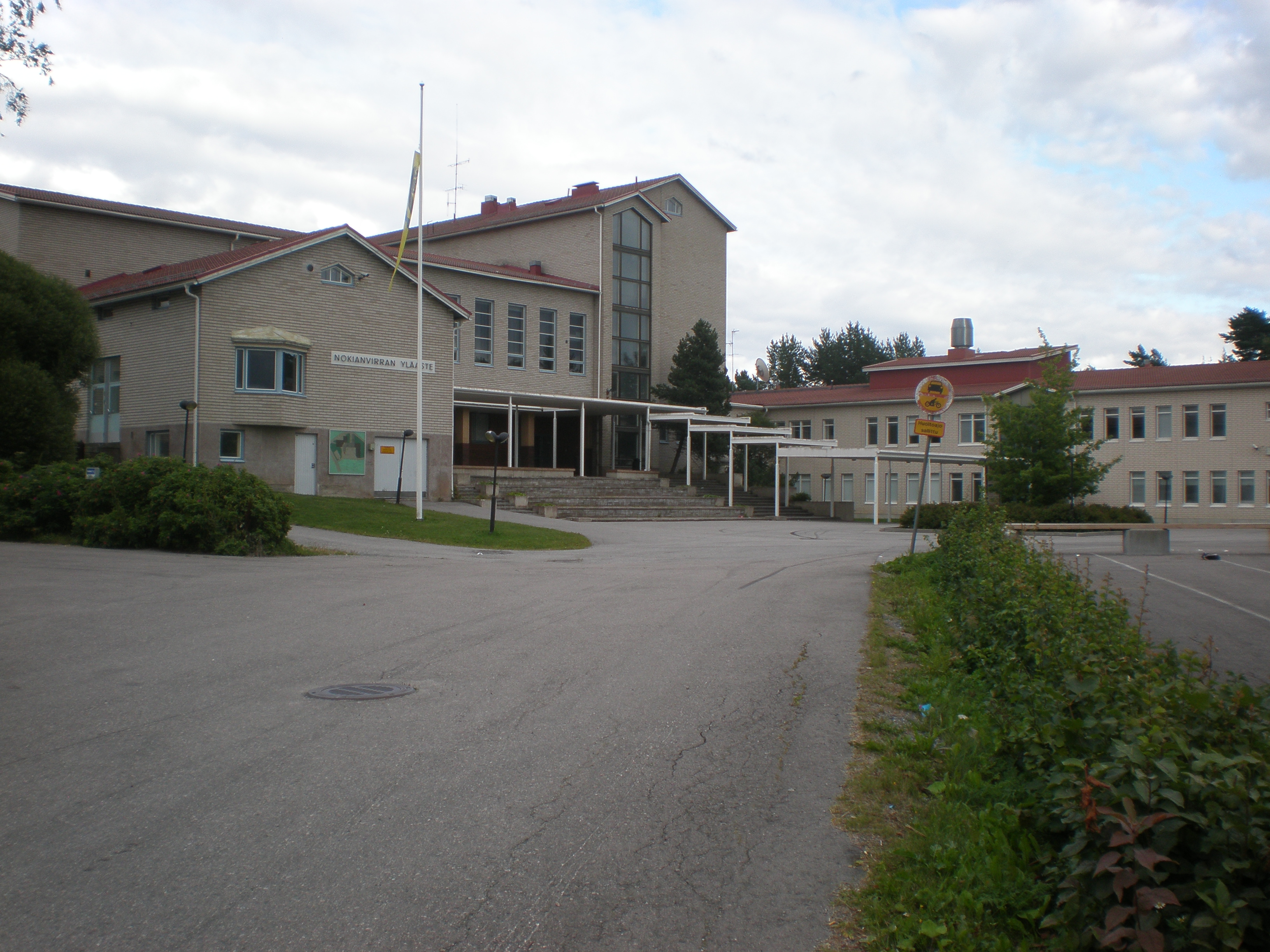 Nokianvirta upper comprehensive school